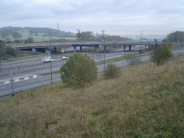 M1 Motorway, Junction 4. Viewed looking eastwards from the A5 Watling Street bridge, the flyover carries the A41 over the motorway, with the slip roads between the two visible on either side.